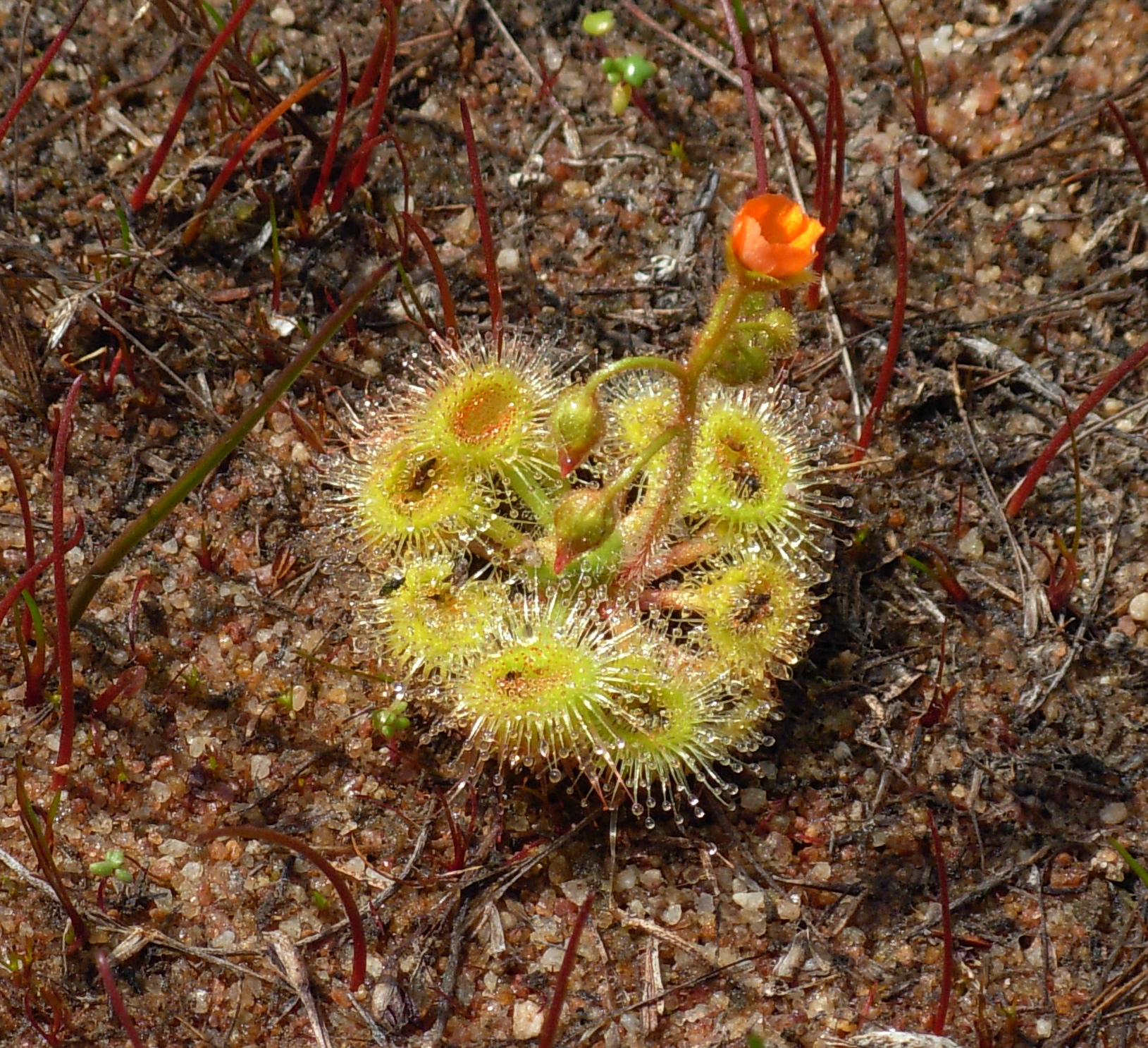 Drosera glanduligera, photo taken 28th August 2008 wheatbelt photo trip